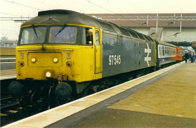 Class 97 No.97545 at Birmingham International station